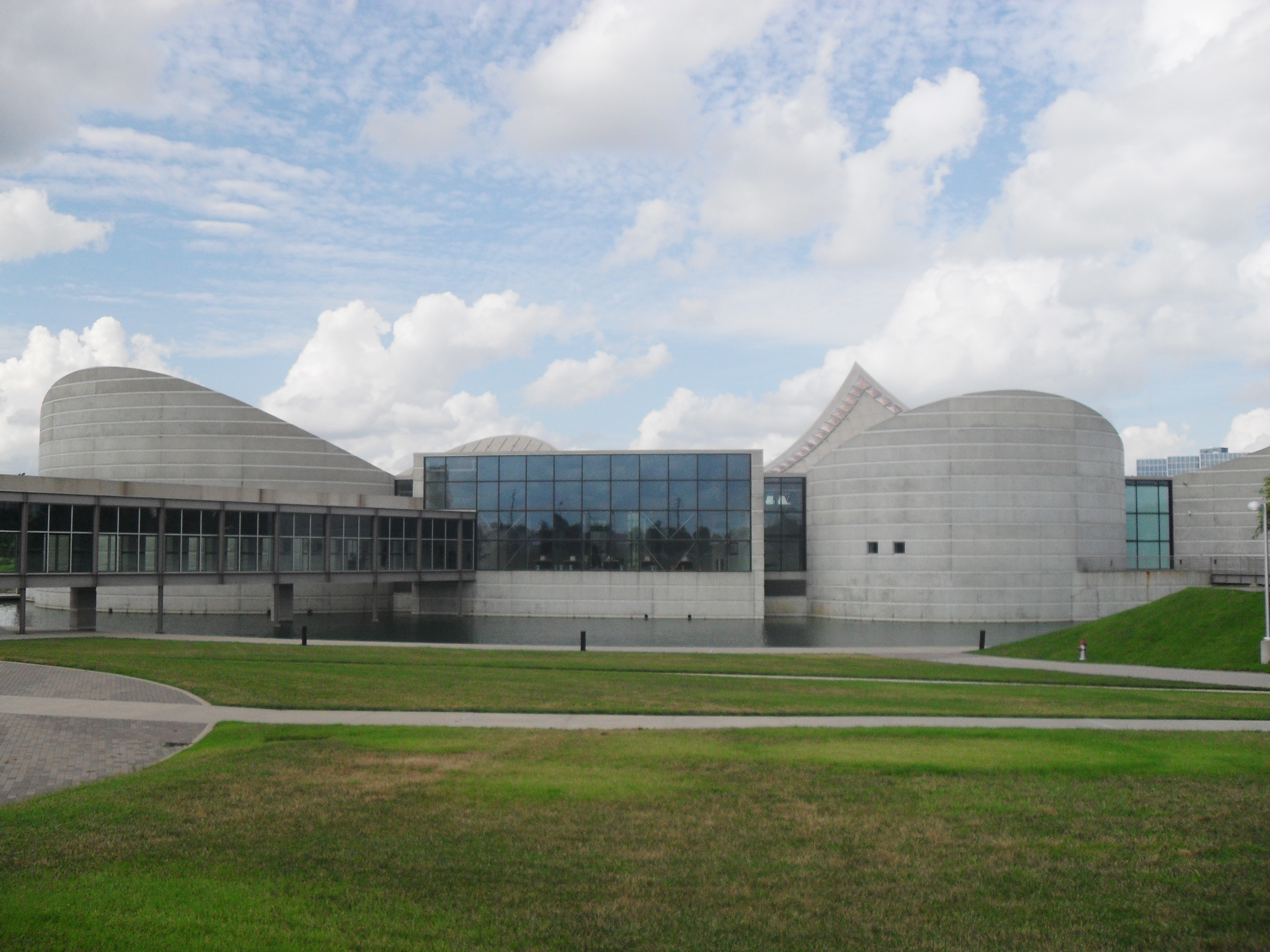 I was walking around the building trying to find a good spot to show off the amazing architecture of Exploration Place when I saw this opportunity to highlight the floor to ceiling windows.